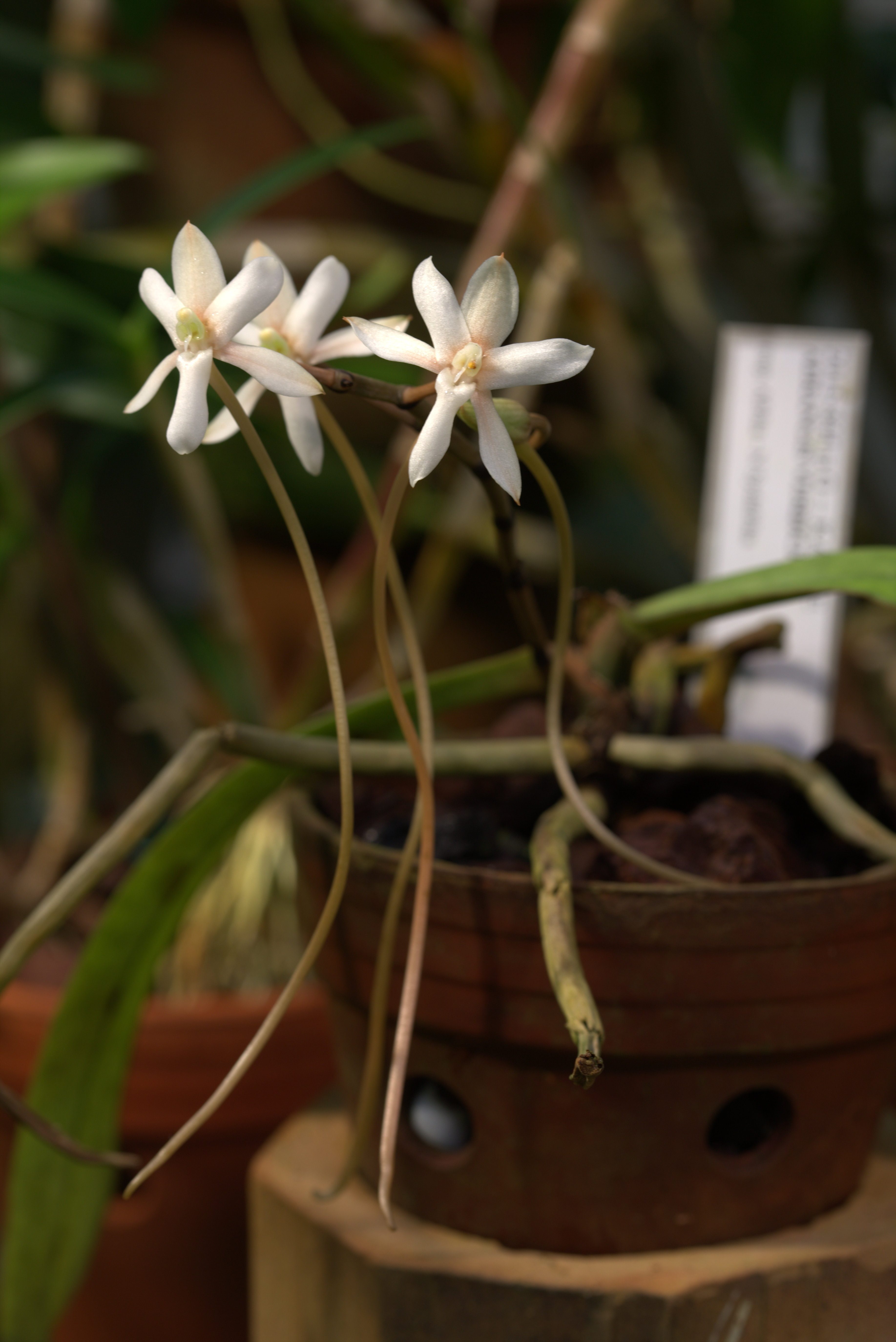 Aerangis verdickii at Gothenburg Botanical Garden. Plant id: 2015-844 p G -- Karge